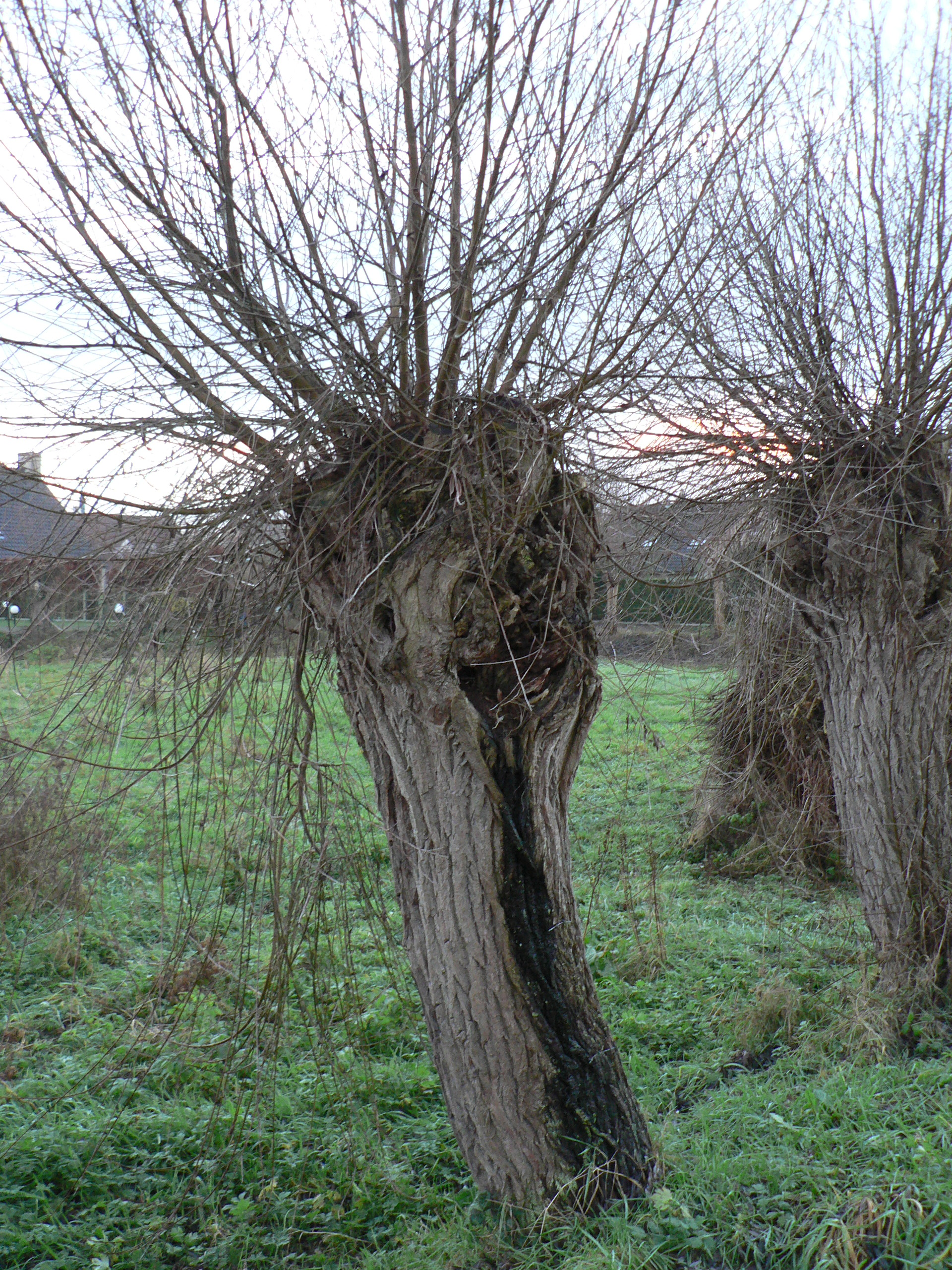 knotwilg - own picture